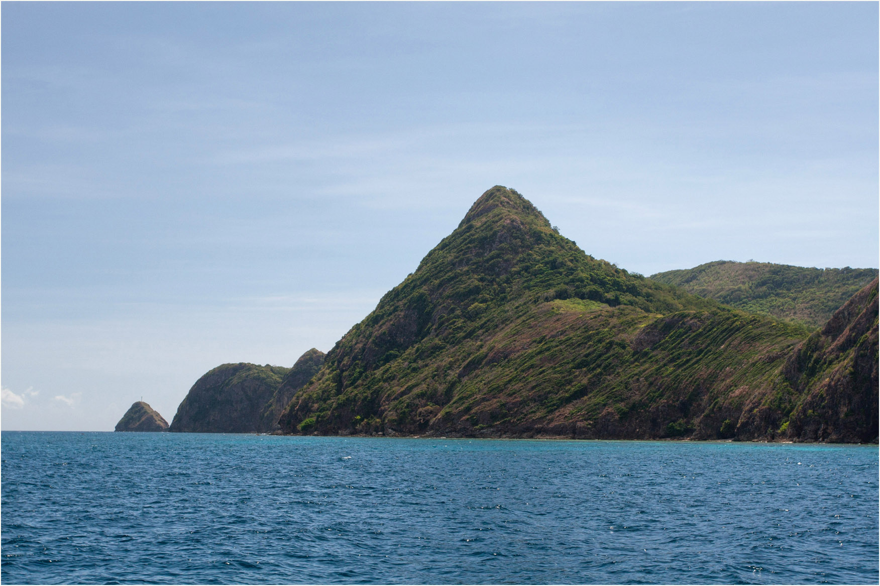 Dicabaito Island Calamian Group